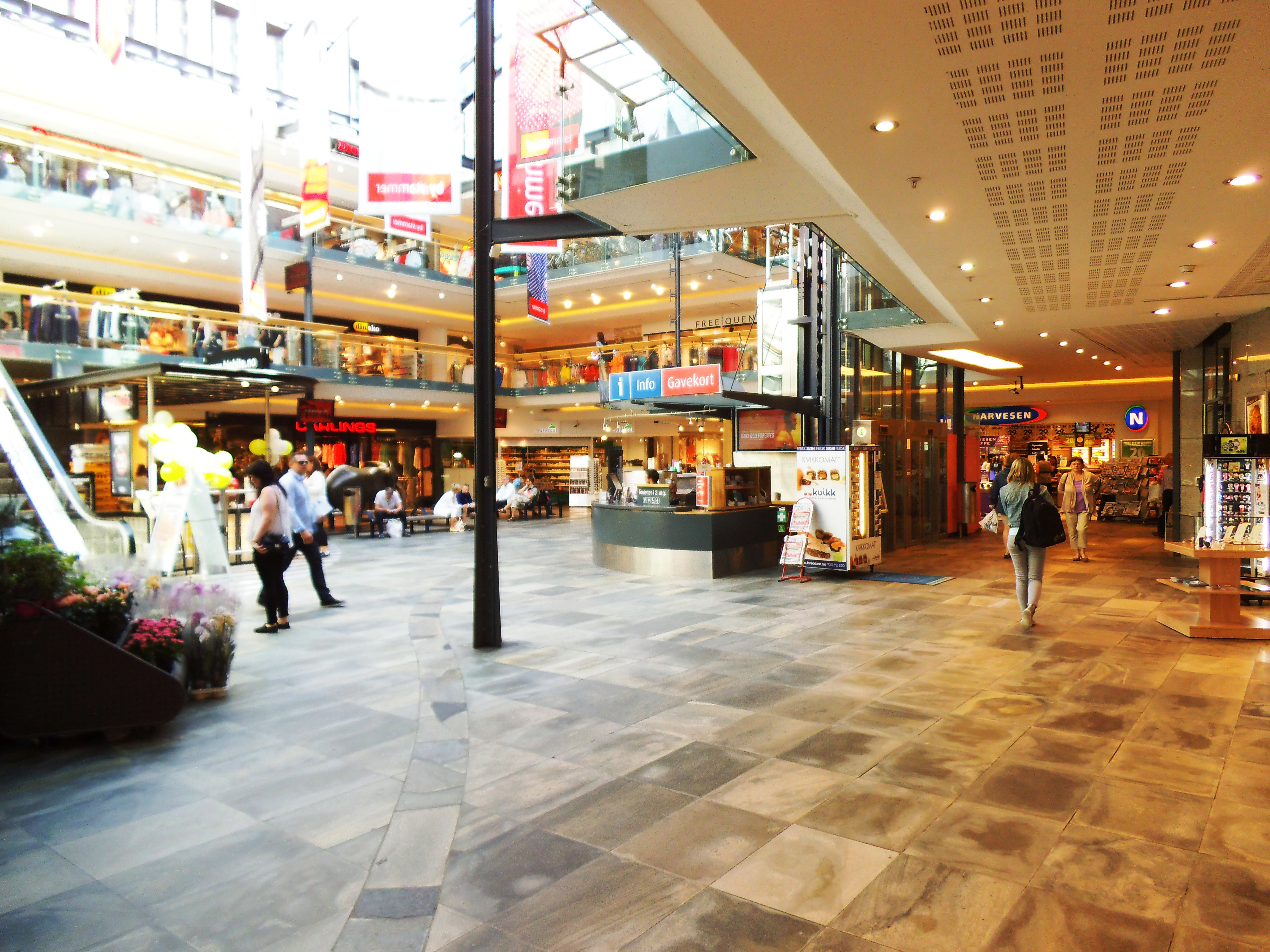 Trondheim Torg. A shopping mall in downtown Trondheim.